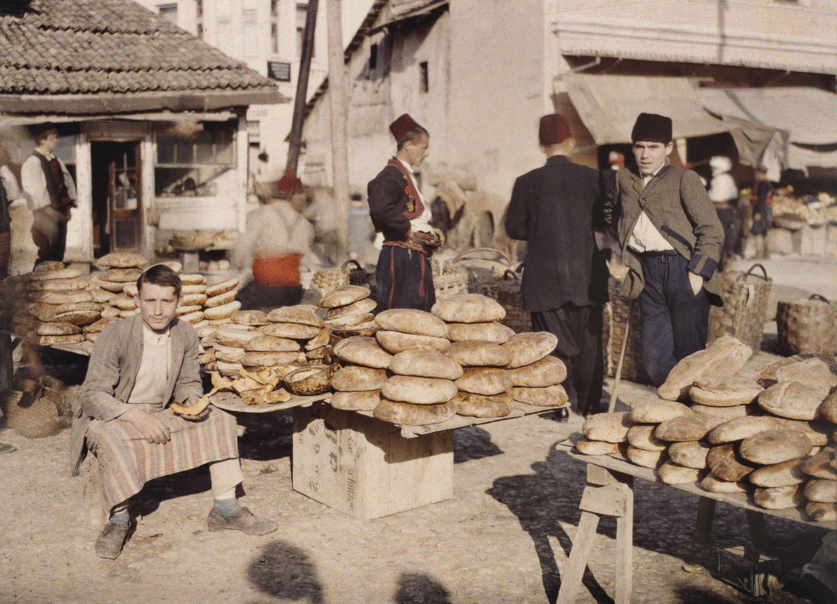 Market scene in Sarajevo, Bosnia-Herzegovina, 1912. Autochrome from Albert Kahn's Archives de la planète.